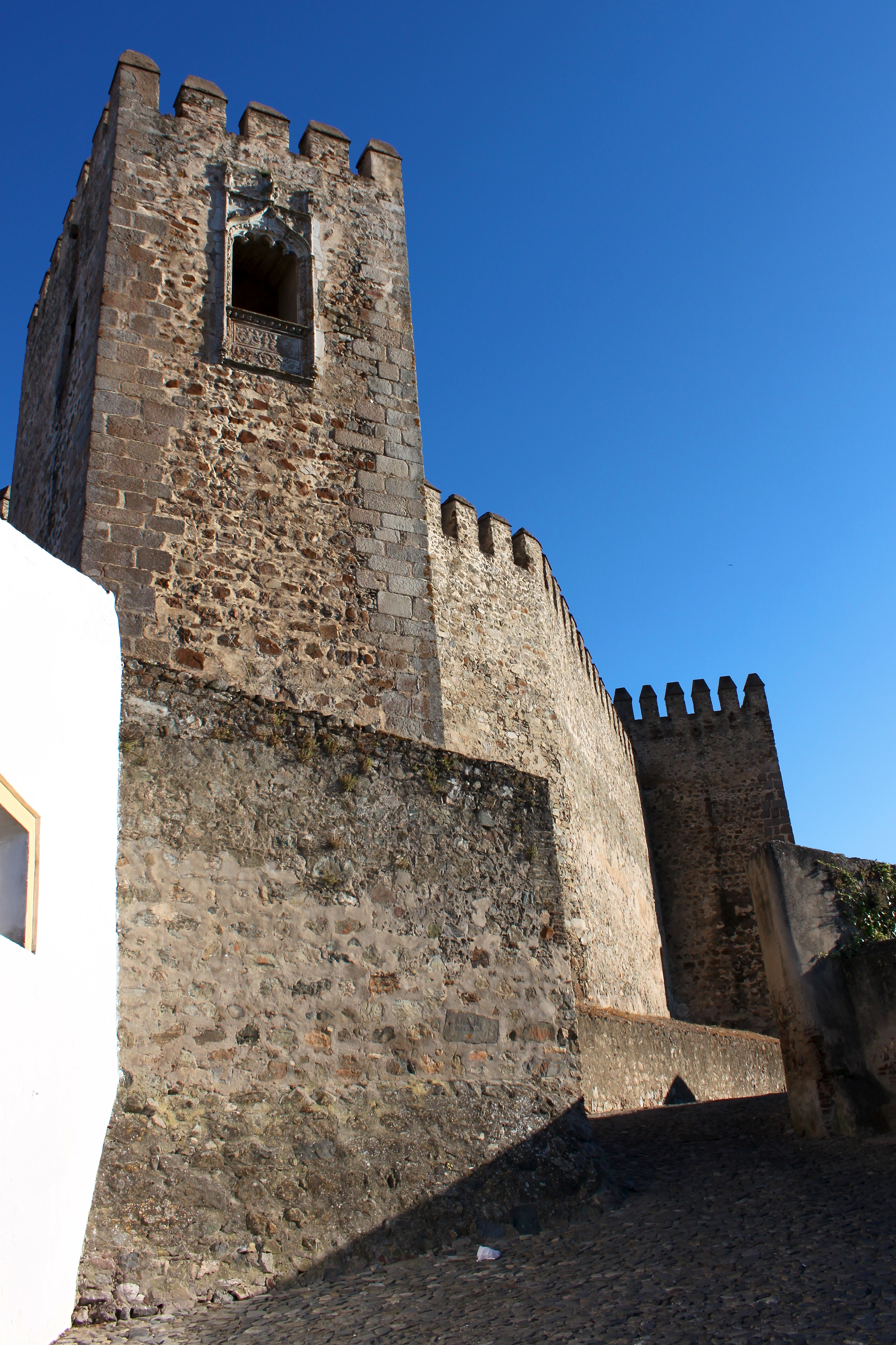 This file was uploaded for Wiki Loves Monuments in Portugal with the unique identifier 71110.